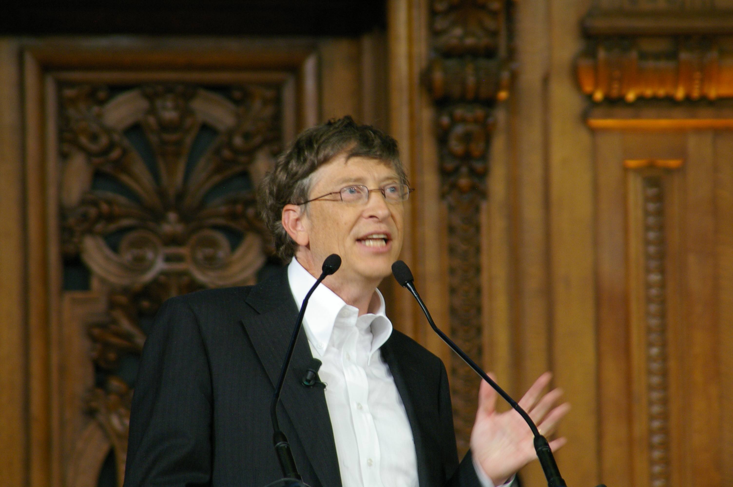 Microsoft's CEO Bill Gates, at Sorbonne University, Paris, France (29 January 2008).